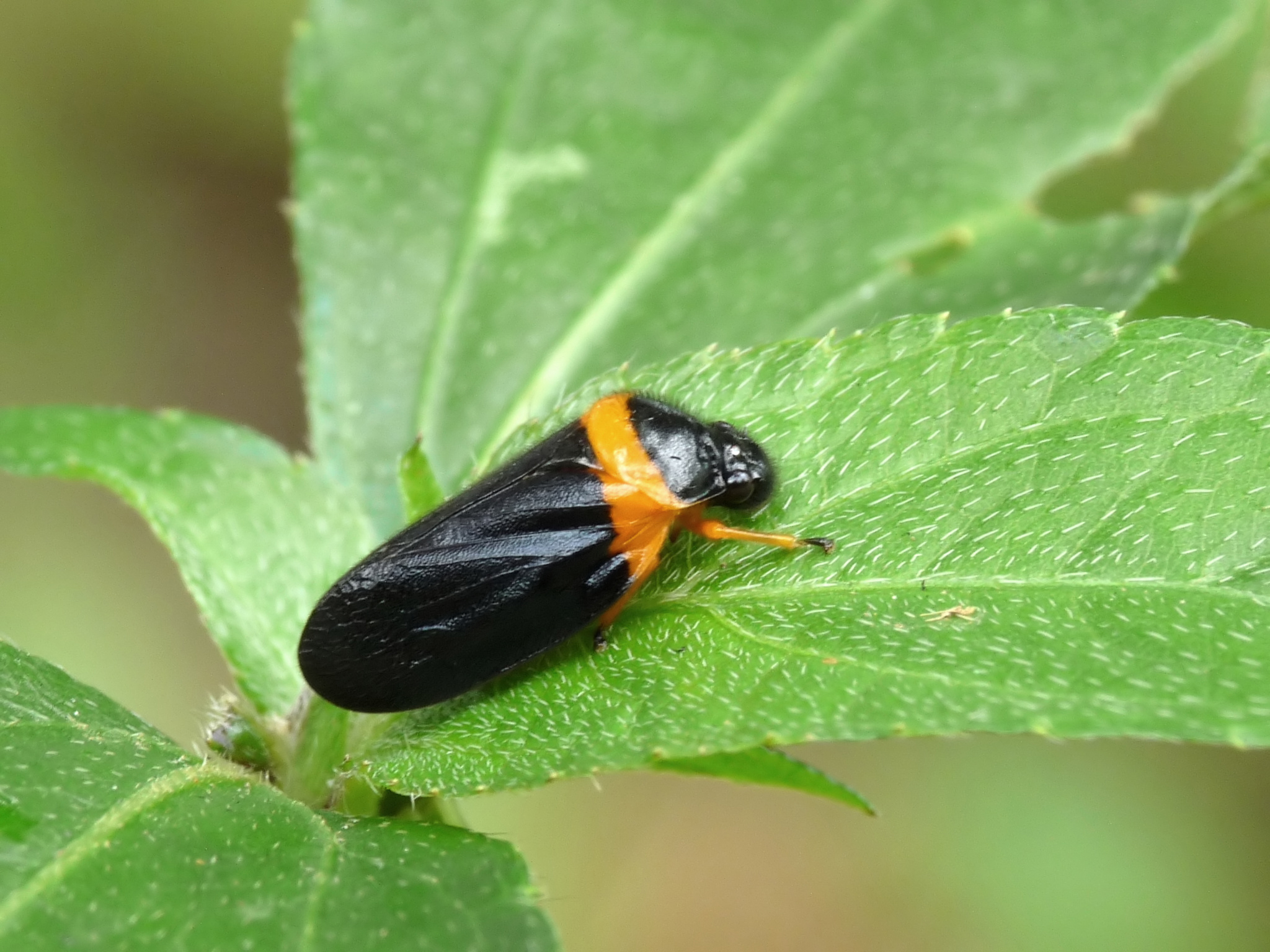 Phymatostetha deschampsi is a brightly coloured black and blue Spittlebug (Cercopidae) usually found on banana plants in South India.